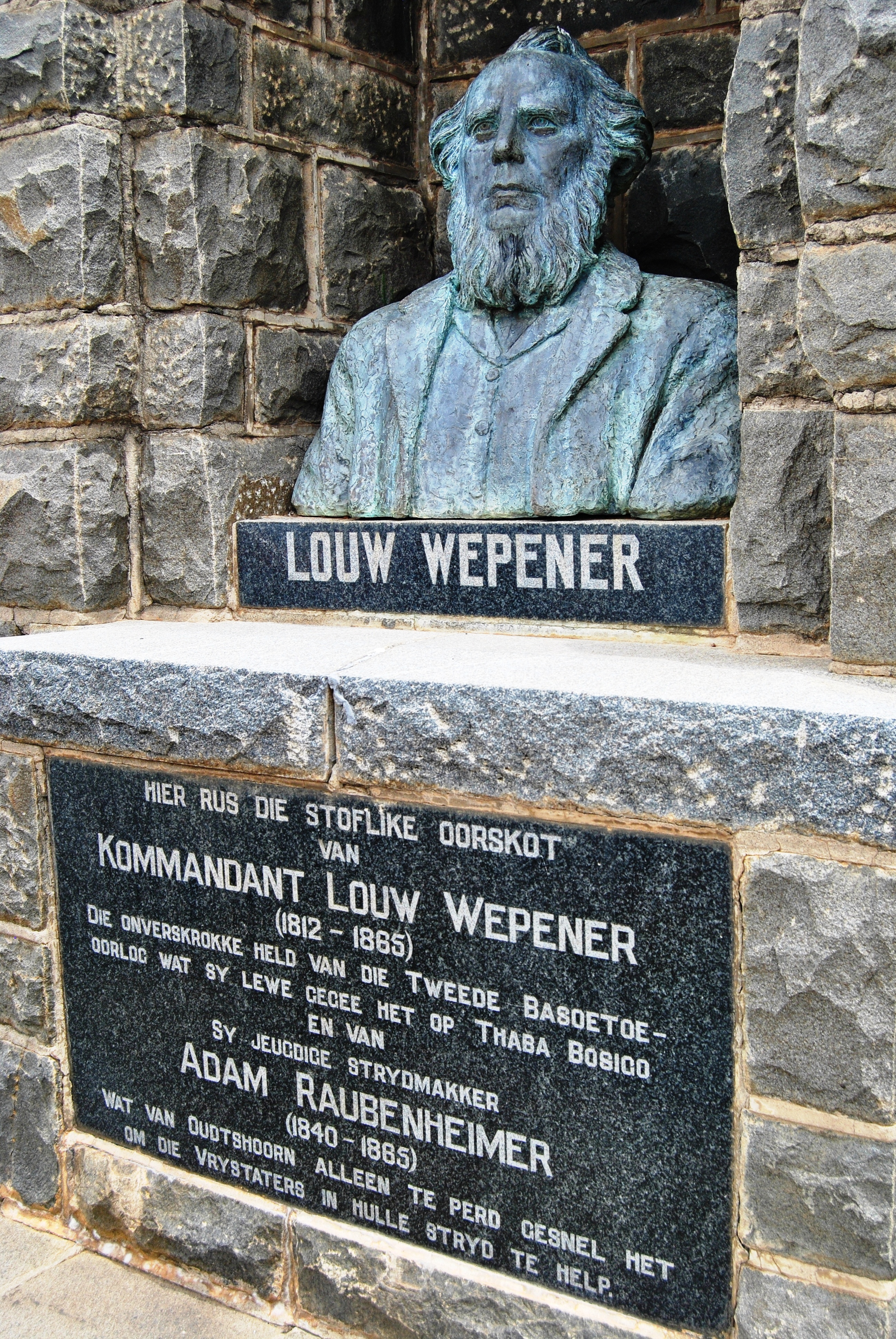 This is Louw Wepener's Grave. This media shows a South African Protected Site with SAHRA file reference 9/2/301/0007.